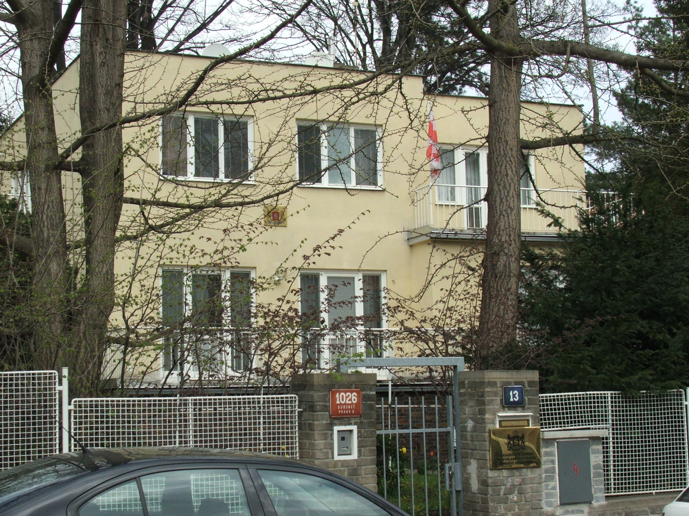 Former Embassy of Georgia in Prague - Bubeneč, Czechia, Street Na Zátorce.